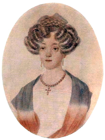 Goncharov Ekaterina Nikolaevna (1809—1843) — baroness Gekkern, the maid of honour, sister N.N.Pushkin, the wife of the murderer of A.S.Pushkin George Dantes.